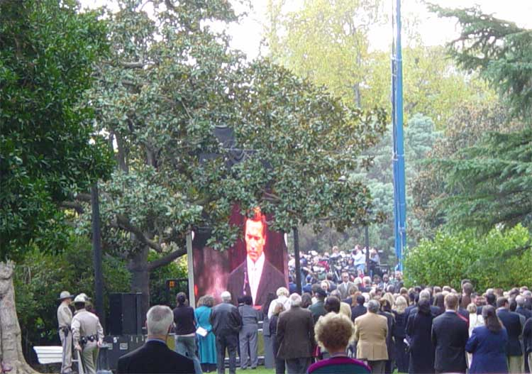 Cropped and resized photo by User:Maveric149. Photo taken at Arnold Schwarzenegger's inauguration on November 17, en:2003. Image released under the GNU FDL.